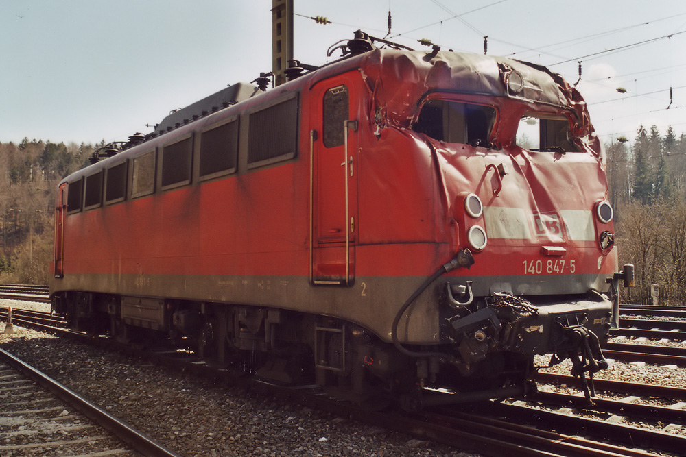 A DB class 140 which has been damaged in an accident in Dollnstein, Ingolstadt–Treuchtlingen line.